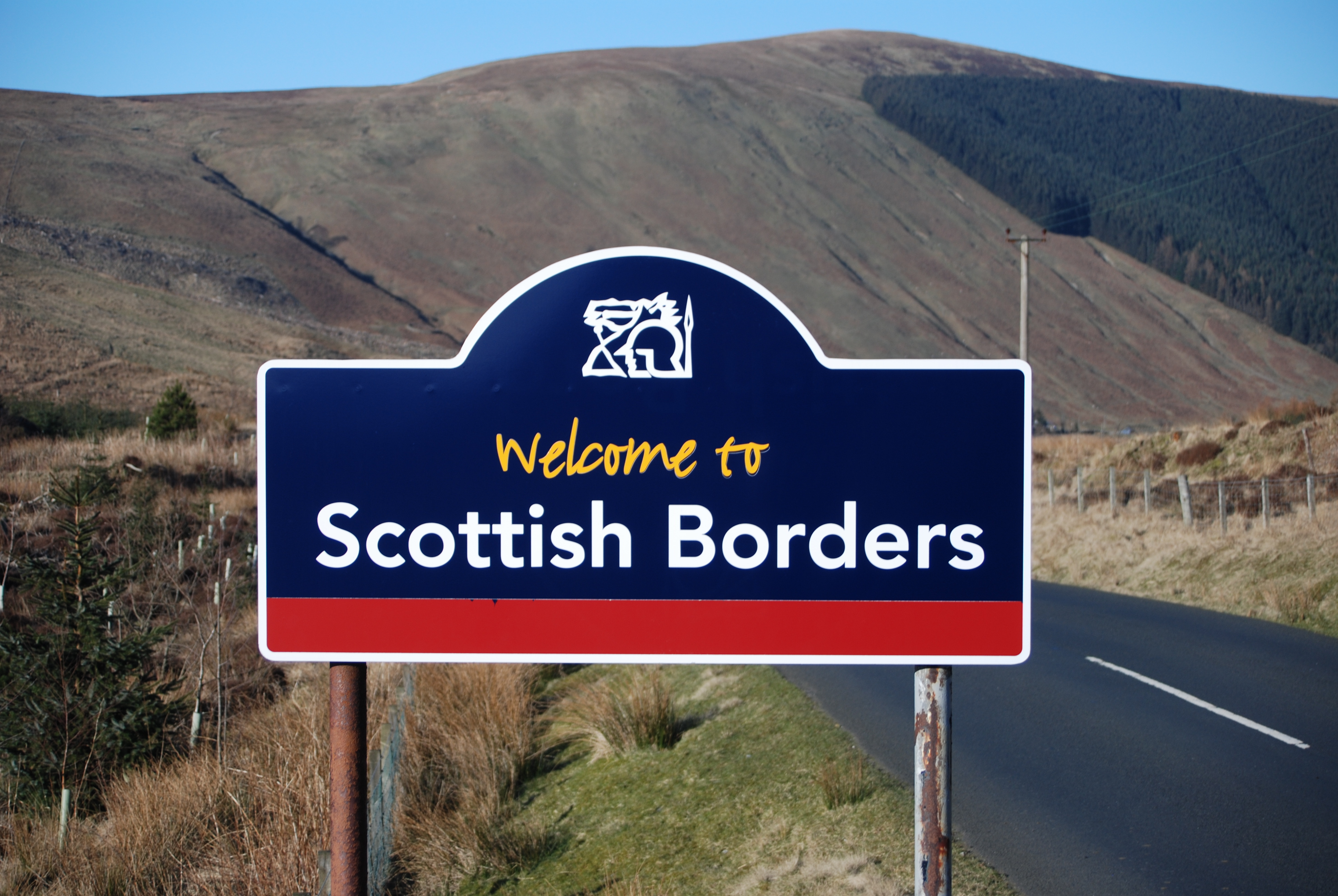 Welcome sign on the border of Scottish Borders